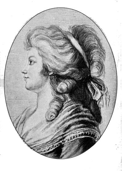 Minna Stock Koerner, as portrayed by her sister, the artist Doris Stock.